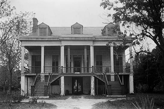 Front view of Pollock House, also known as Bellevue and Longfellow House, Pascagoula, Jackson County, Mississippi, USA. Constructed circa 1850 and added to the National Register of Historic Places December 12, 2002. Note: Image labeled "Pollack House, East Beach Boulevard, Pascagoula, Jackson County, MS" in Library of Congress Historic American Buildings Survey.